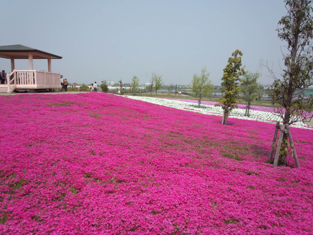 The mitsumata-pond park since 2009.You can see a lot of beautiful moss phlox at this park every April. :loc:709-5,1-chome,toriganji,Aichi pref,Japan